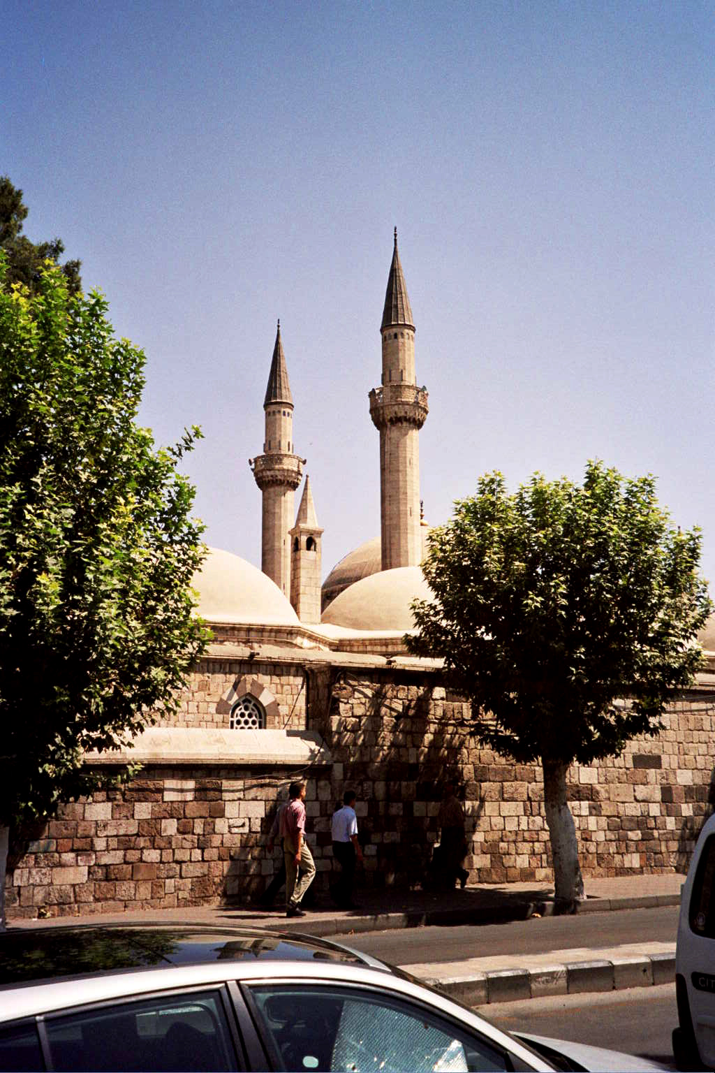 Takiyya As-Sulaimaniyya, Damascus